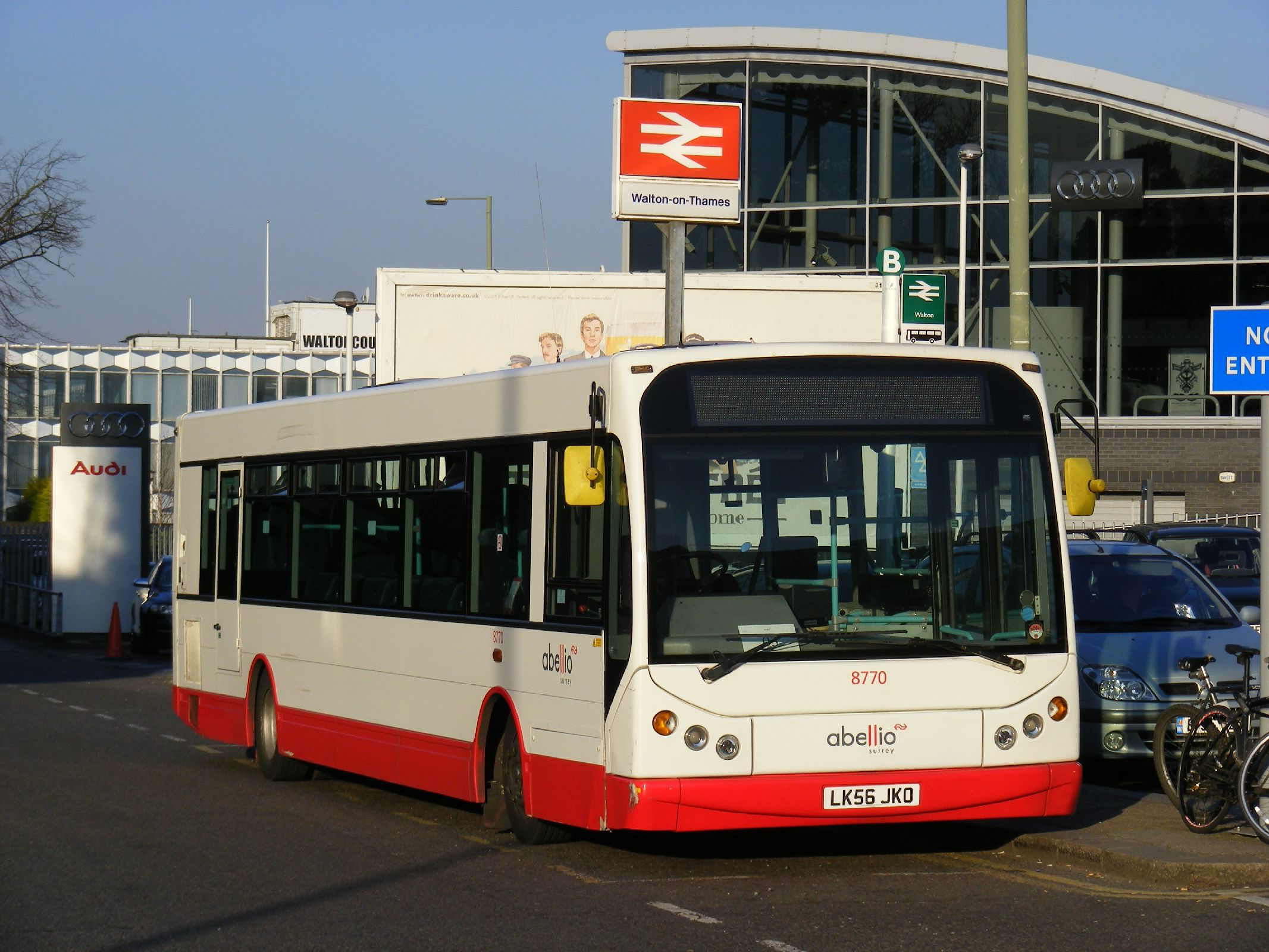 Abellio Surrey 8770 (LK56 JKO), a Dennis Dart SLF 11.3m/East Lancs Myllennium 11.6m, in Station Avenue, Walton-on-Thames, Surrey, laying over between duties on route 555.